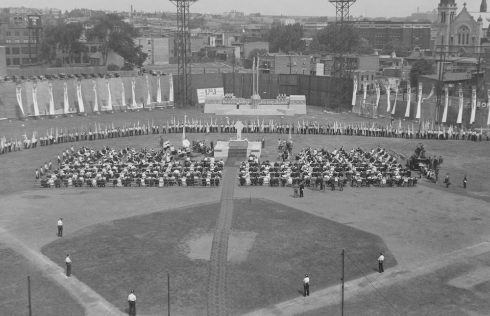 In collective wedding organized by the Youth Movement of Catholic workers or JOC, we see young married couples sitting at the center of Delorimier Stadium in Montreal surrounded by a hedge of YCW well as an altar set up for the ceremony.